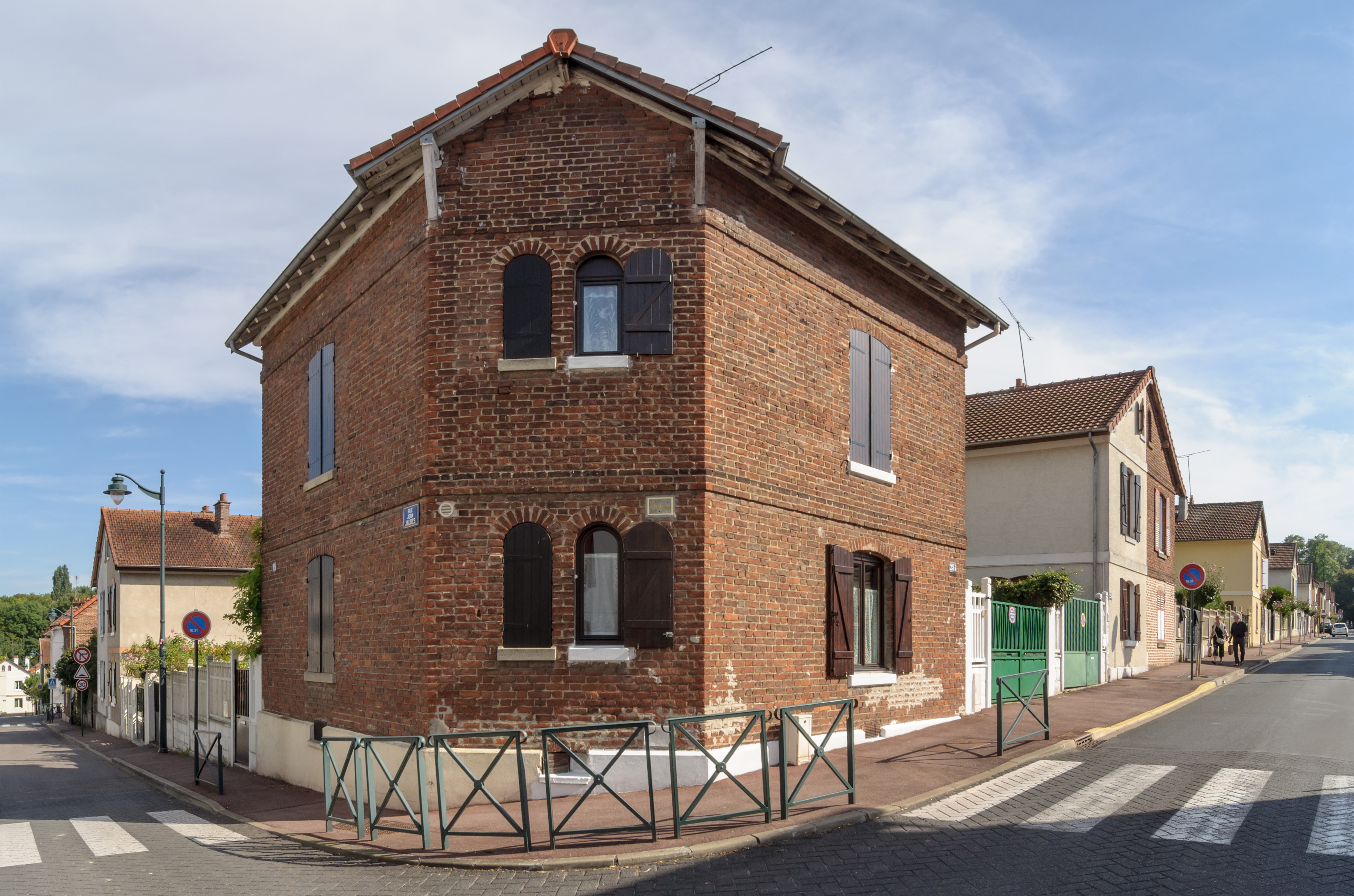 Houses in the former Menier company town in Noisiel, Seine-et-Marne, France.